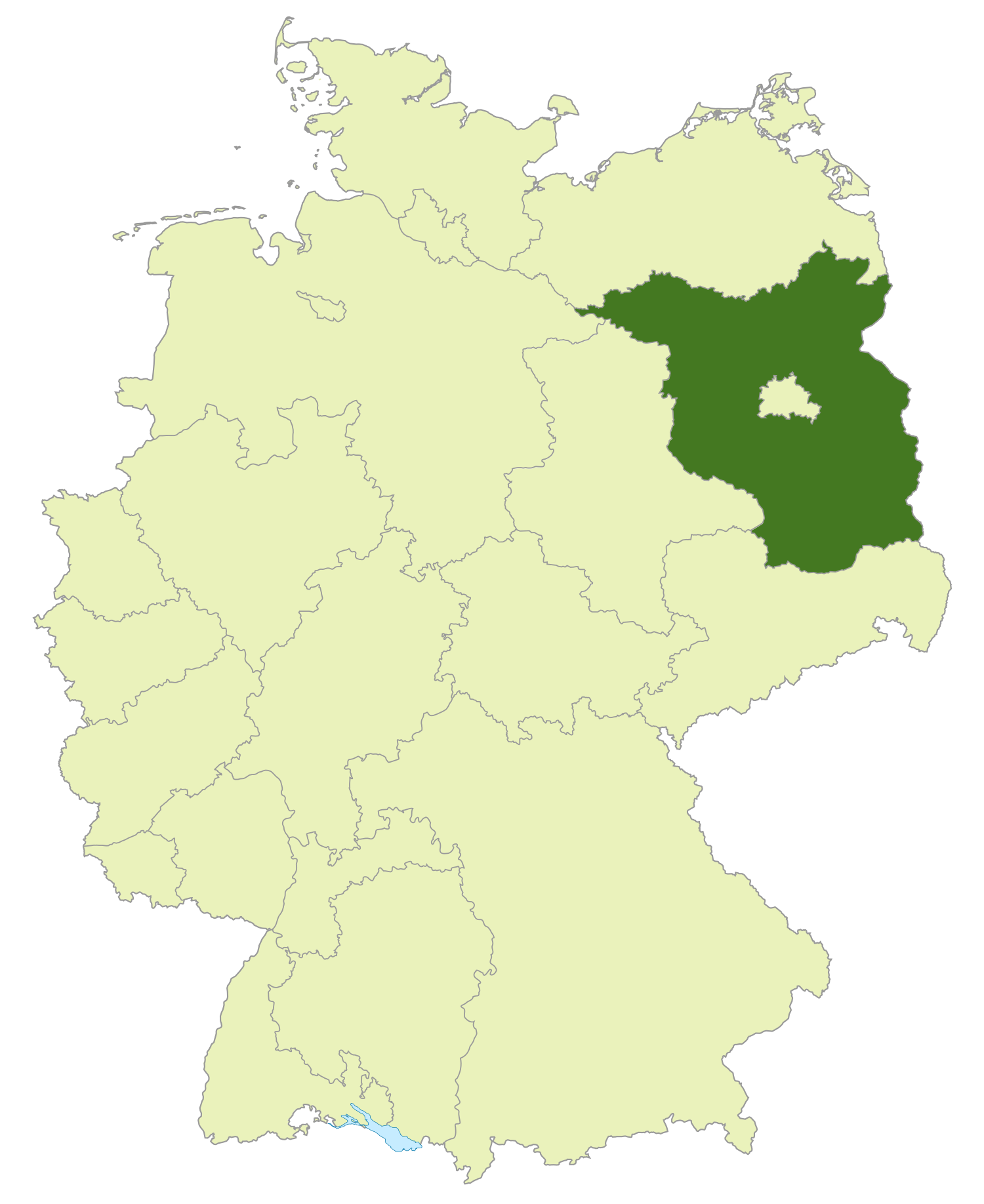 Map of regional soccer association Brandenburg, Germany